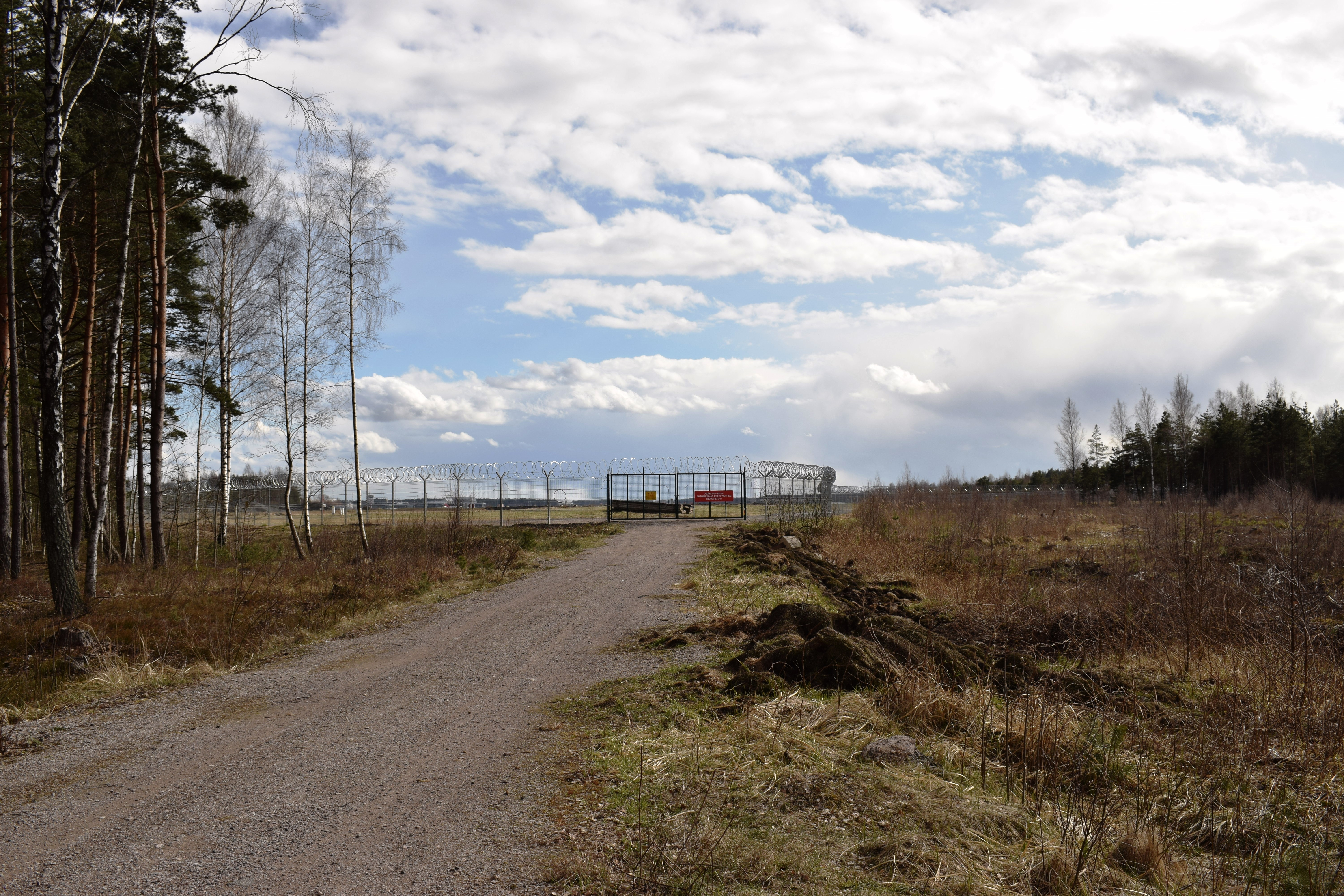 Mūkupurvs